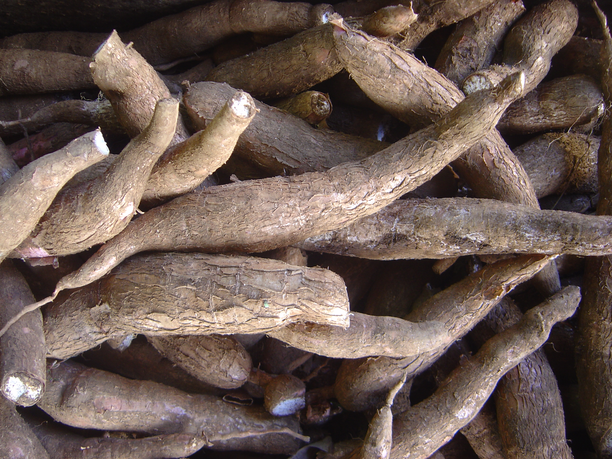 Species Manihot esculenta Genus Manihot Familia Euphorbiaceae on sale on Réunion Island.